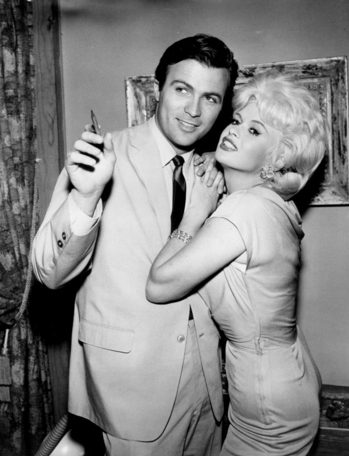 Photo of Barry Coe and Jayne Mansfield from the television program I'll Follow the Sun.